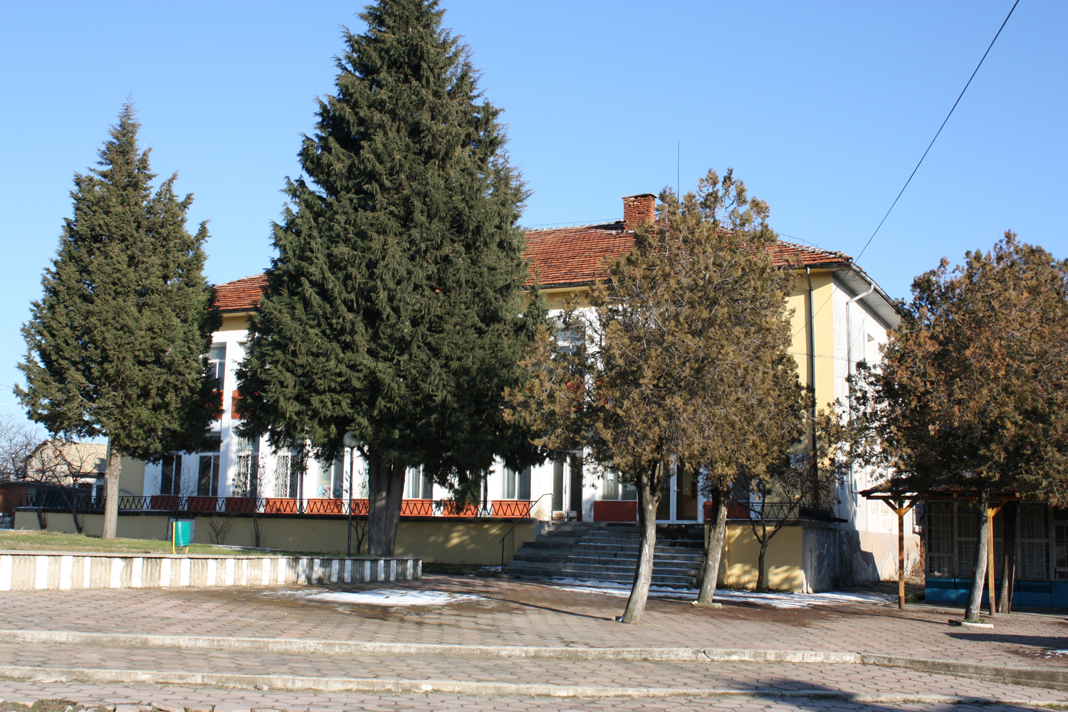 Chitalishte (Culture club) in Dabravite